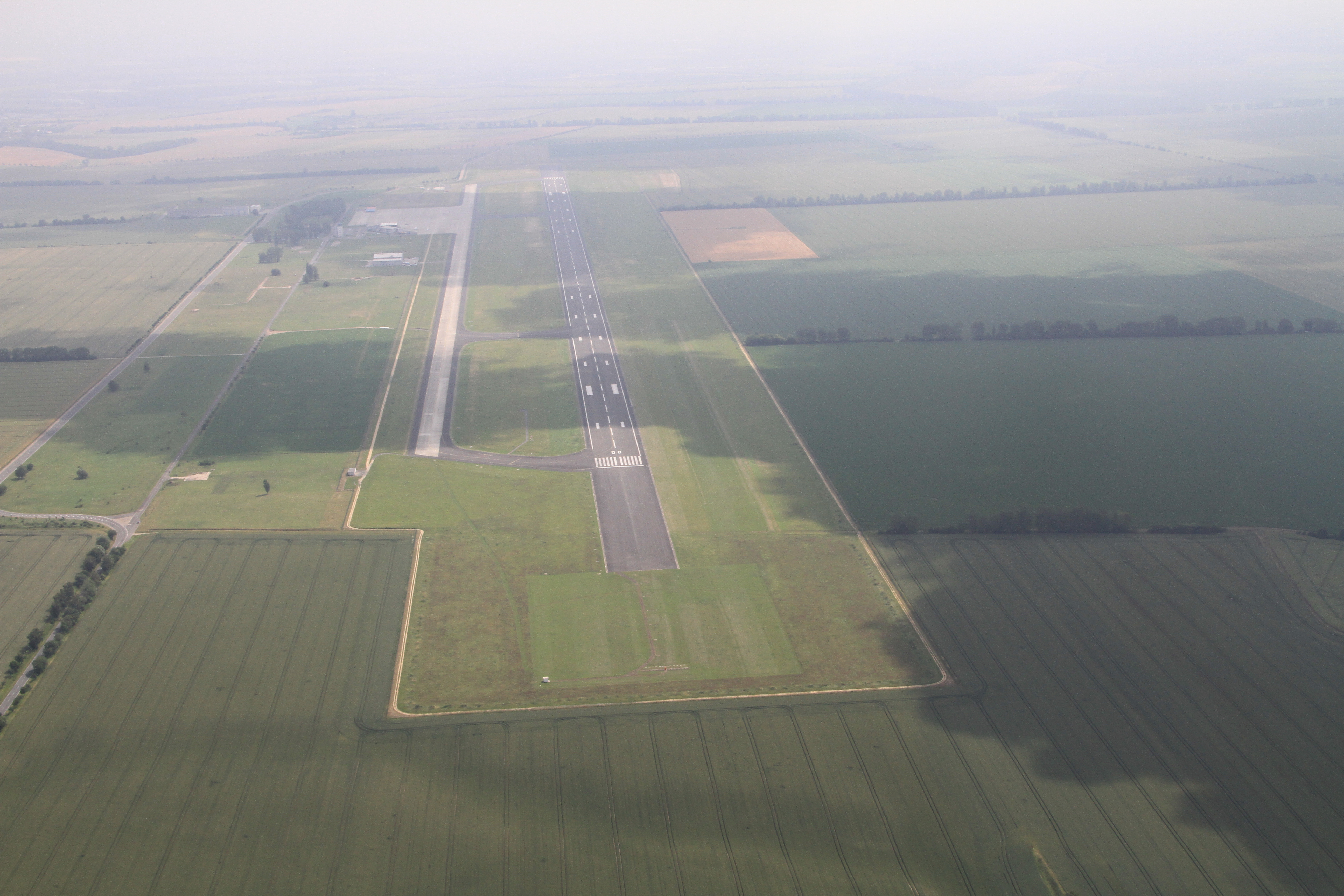 Aerial view of Cochstedt Airport